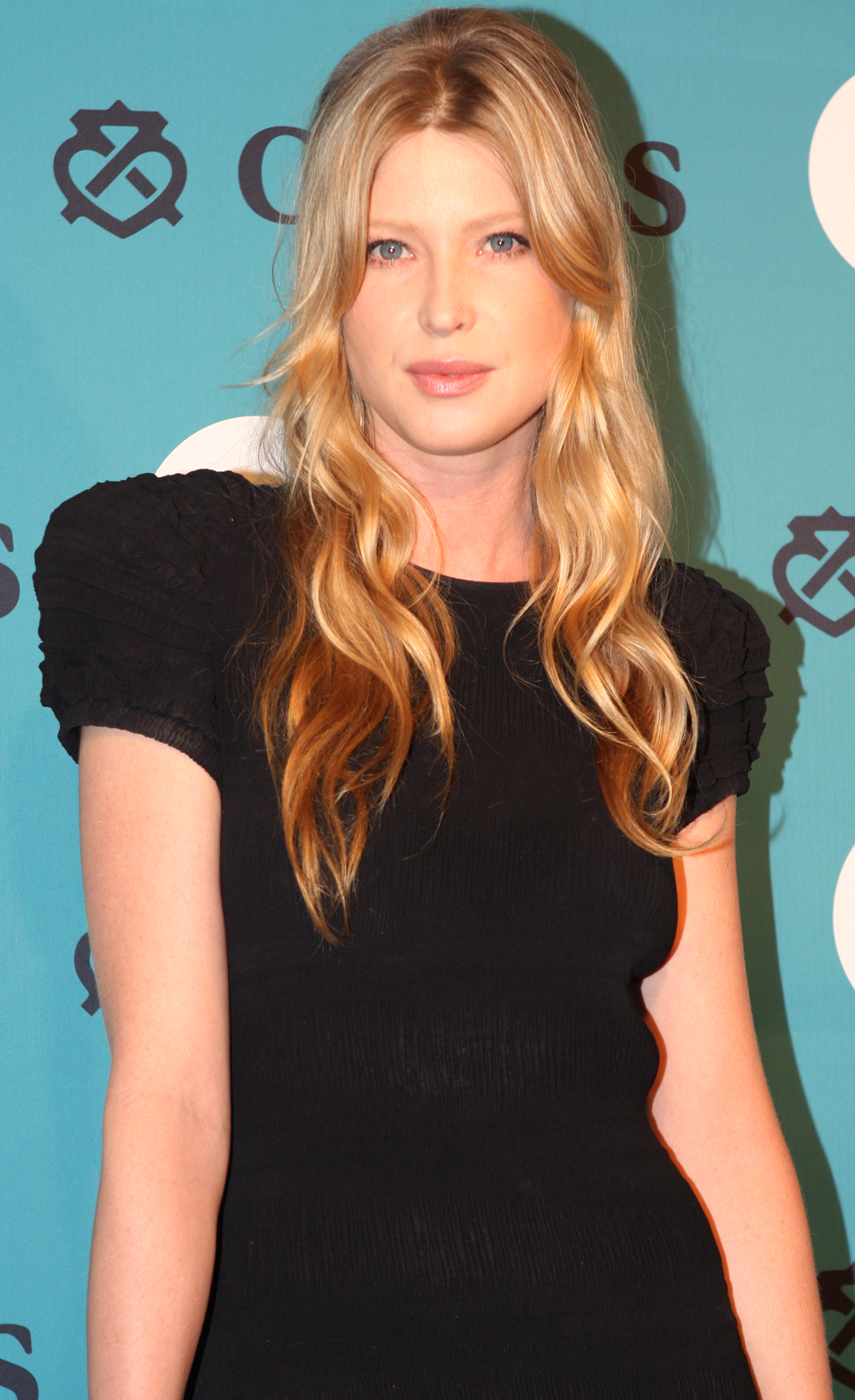 Emma Booth